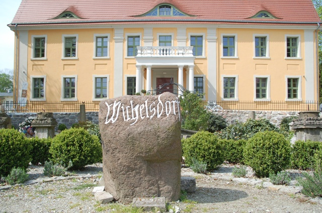 Palace Wiechlice near Szprotawa in Poland. Start and End of the Route "Pętla Wiechlicka".